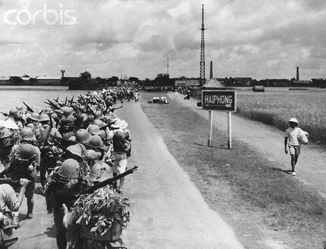 Japanese troop enter Hai Phong at 1940